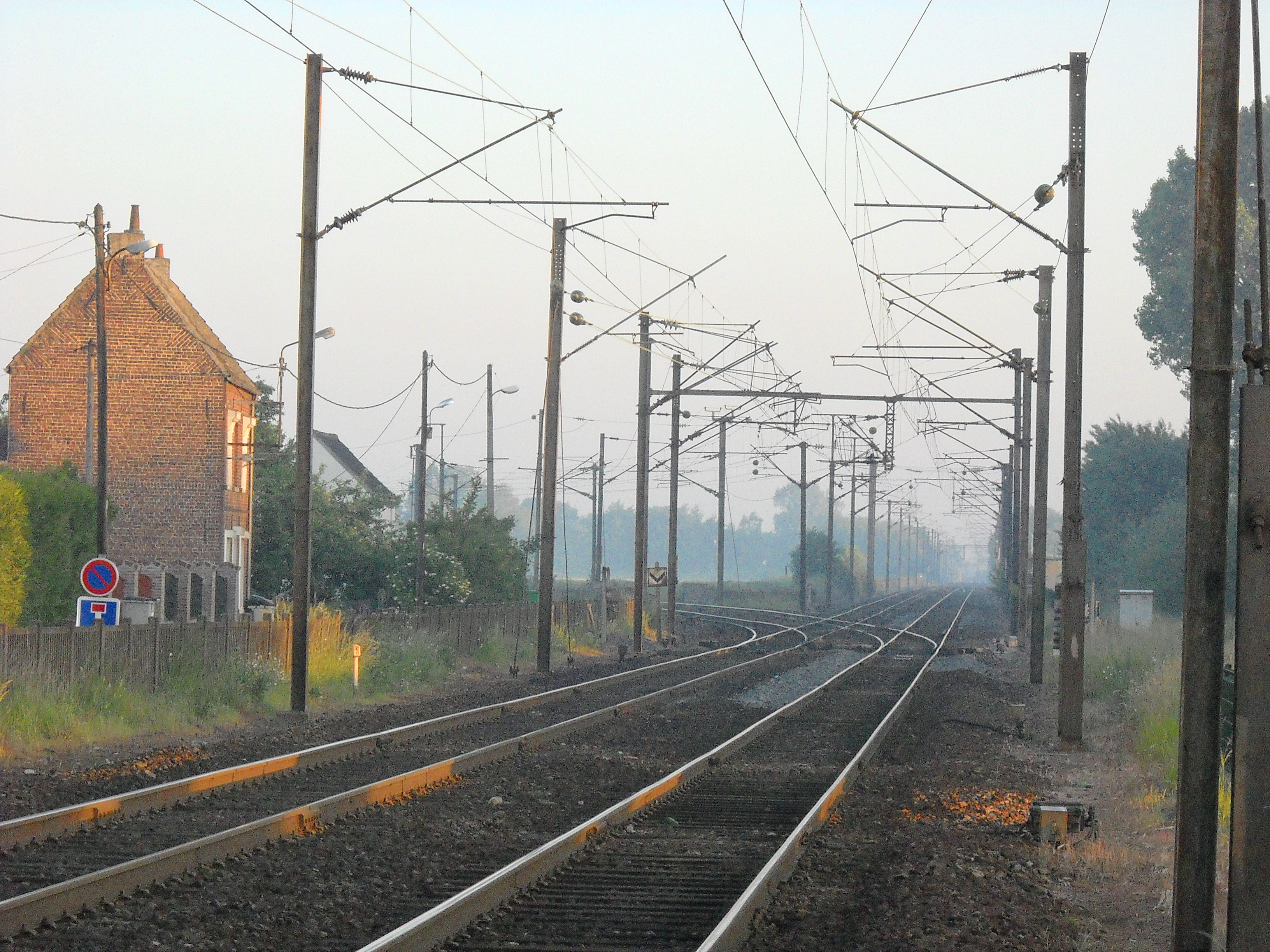 The train station of Ostricourt, Nord, France.